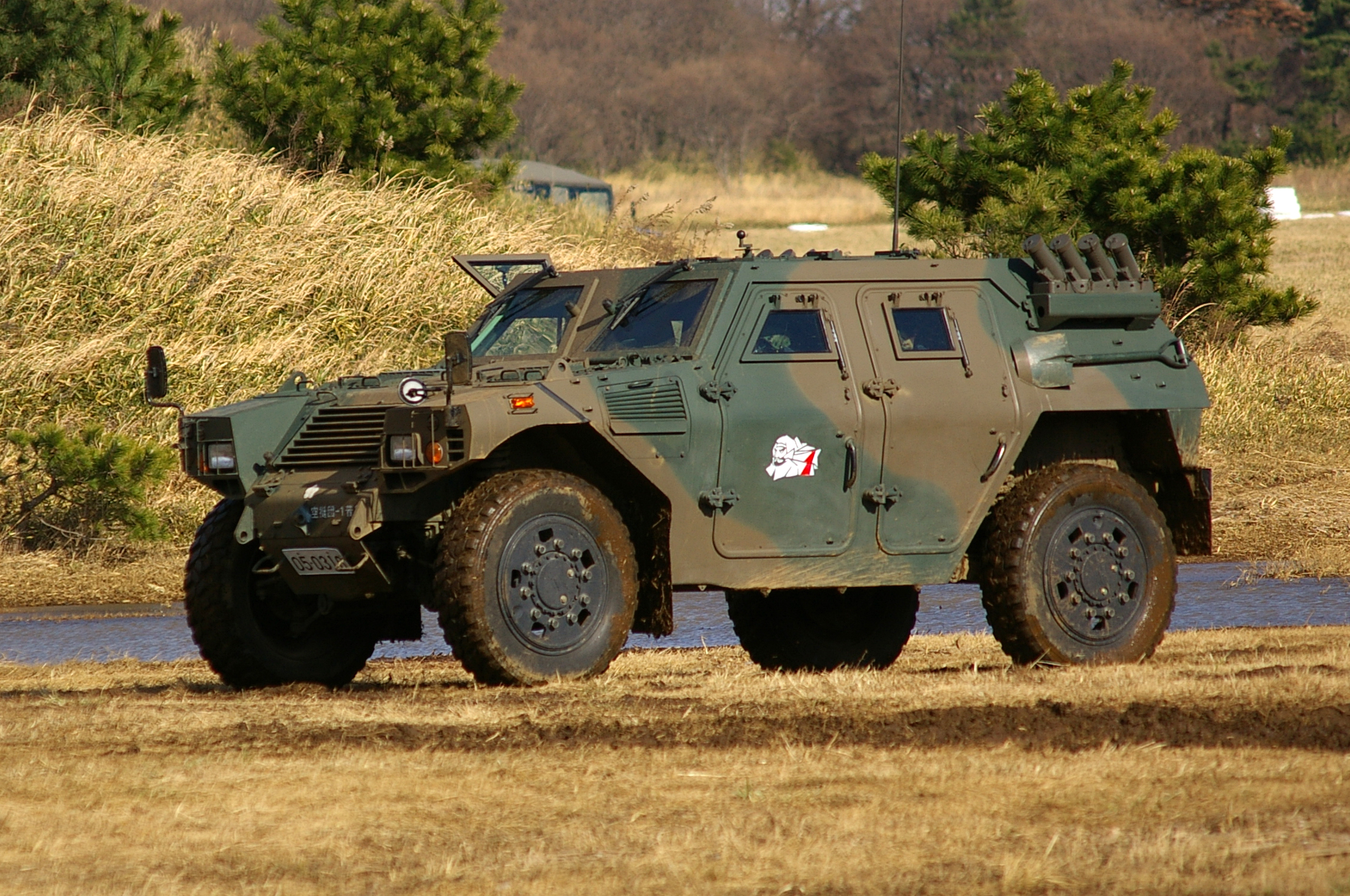 JGSDF Light Armored vehicle.Taken by Los688,in Narashino,Japan,at 07-Jan-2007,JGSDF 1st Airborne Brigade 2007 first drop manuver.PD-self 軽装甲機動車 2007年01月07日、習志野演習場で撮影。